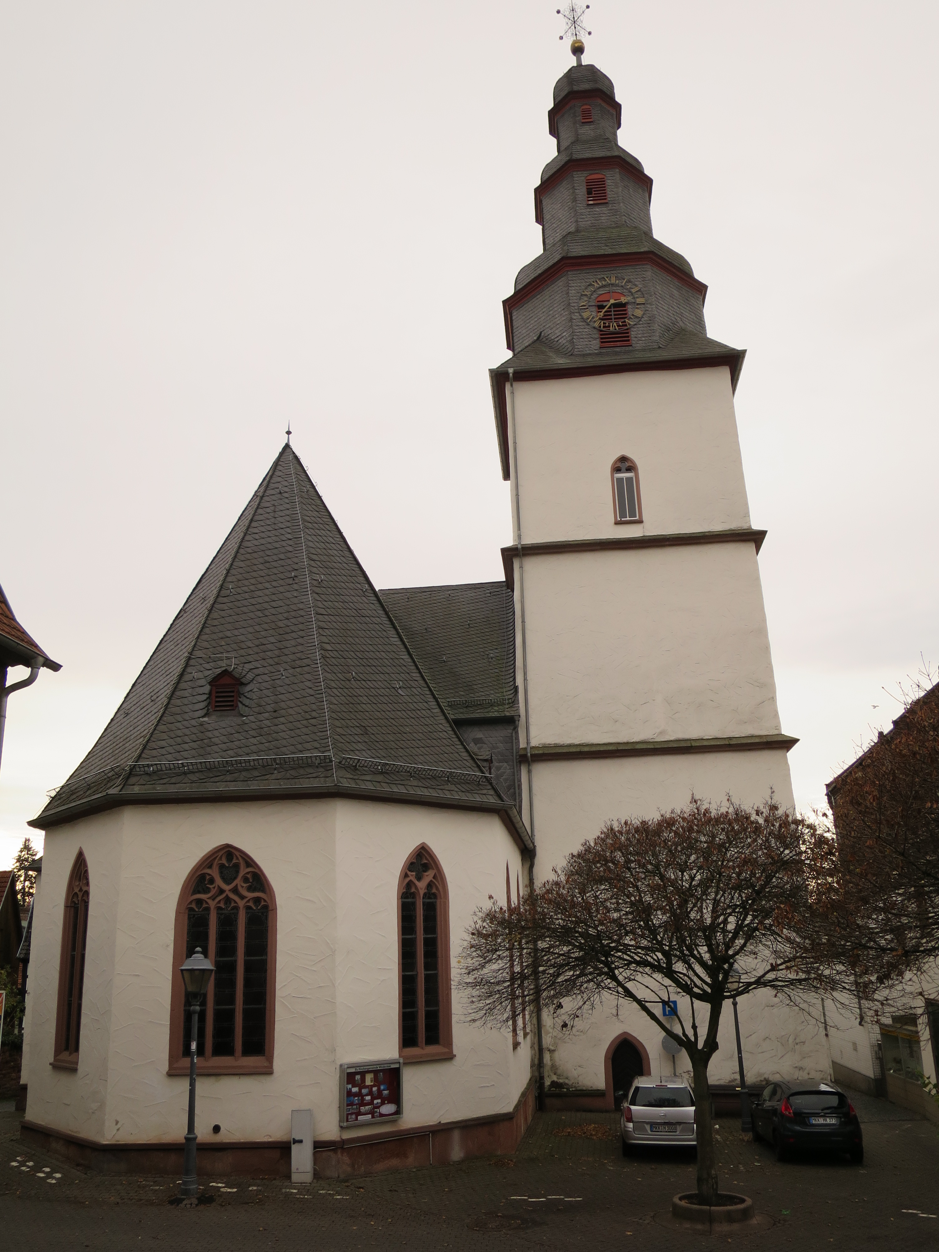 Stiftskirche Windecken from east